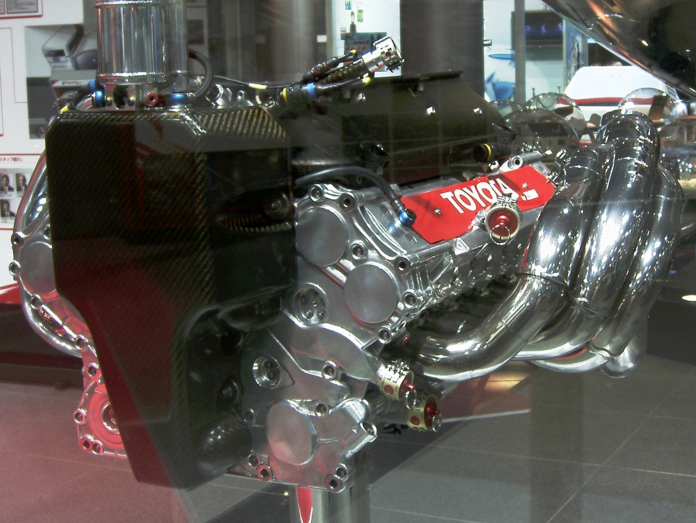 “Toyota Formula One TF101_RVX-01_Engine” ToyotaAmlux,Show room Tokyo, Japan Category:Toyota F1 Toyota F1